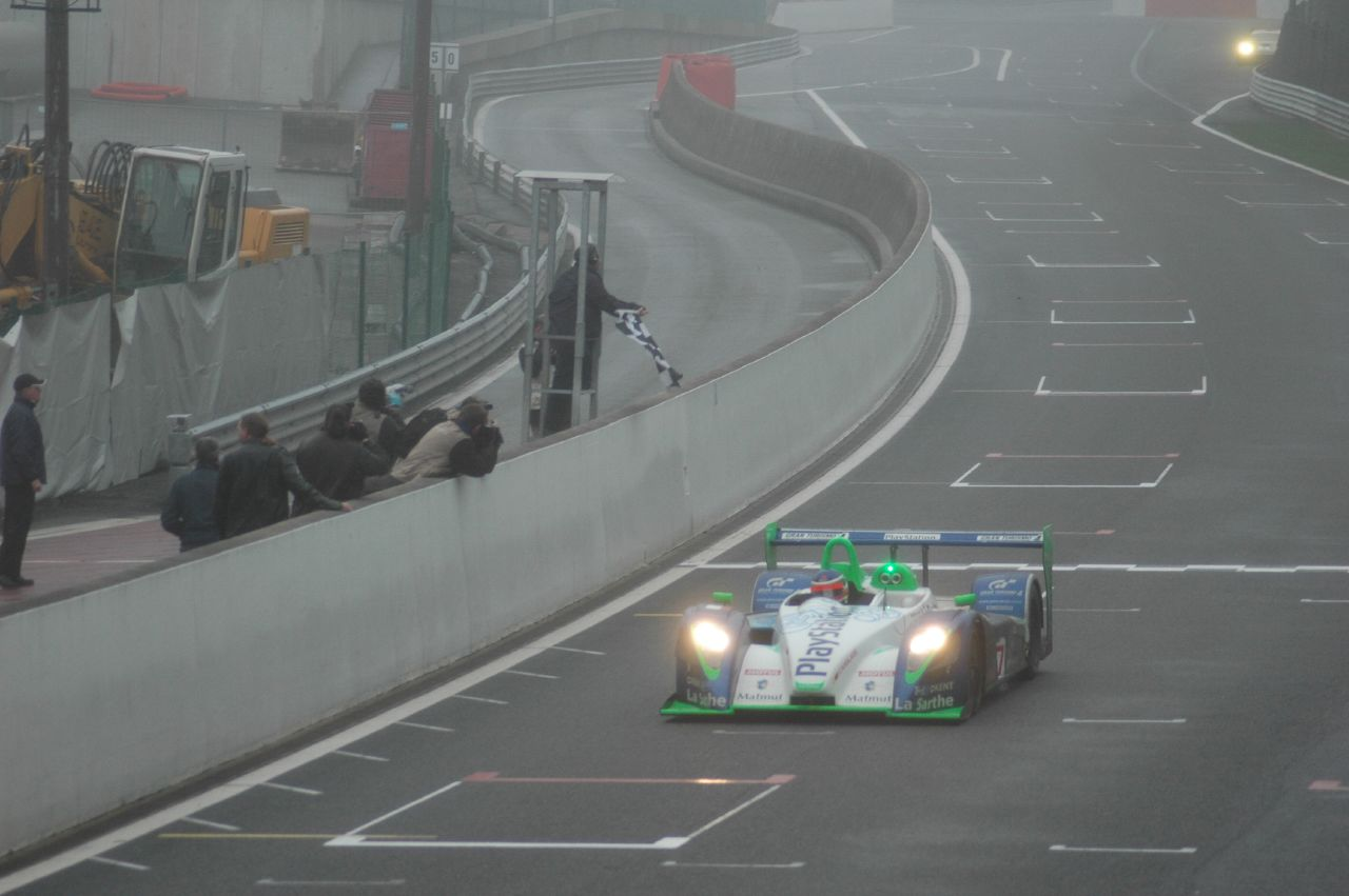 Jean-Chrisoph Boullion finishing second for Pescarolo Sport at 2005 1000km of Spa.